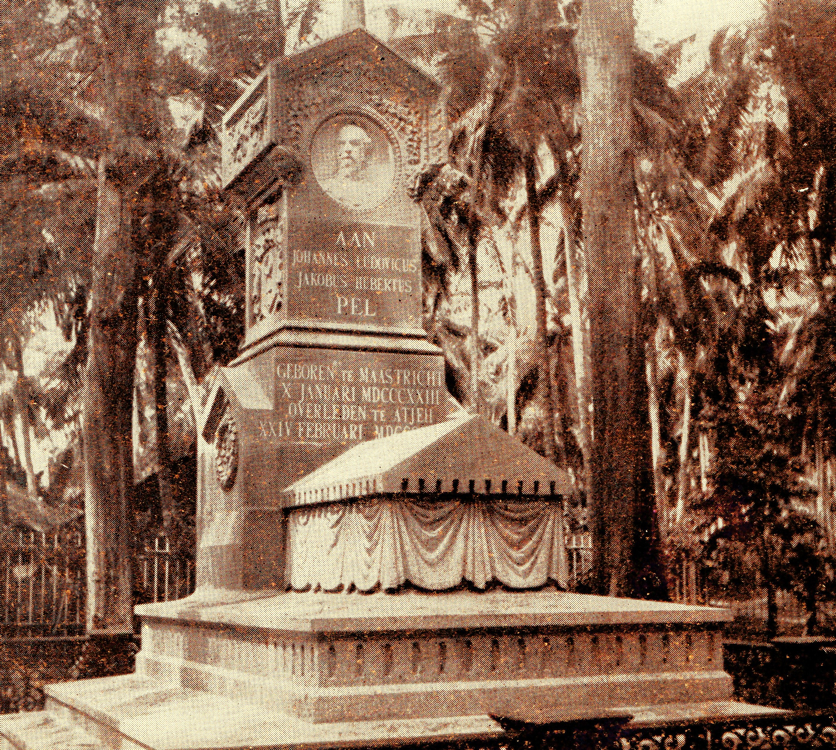 Monument voor generaal Pel.